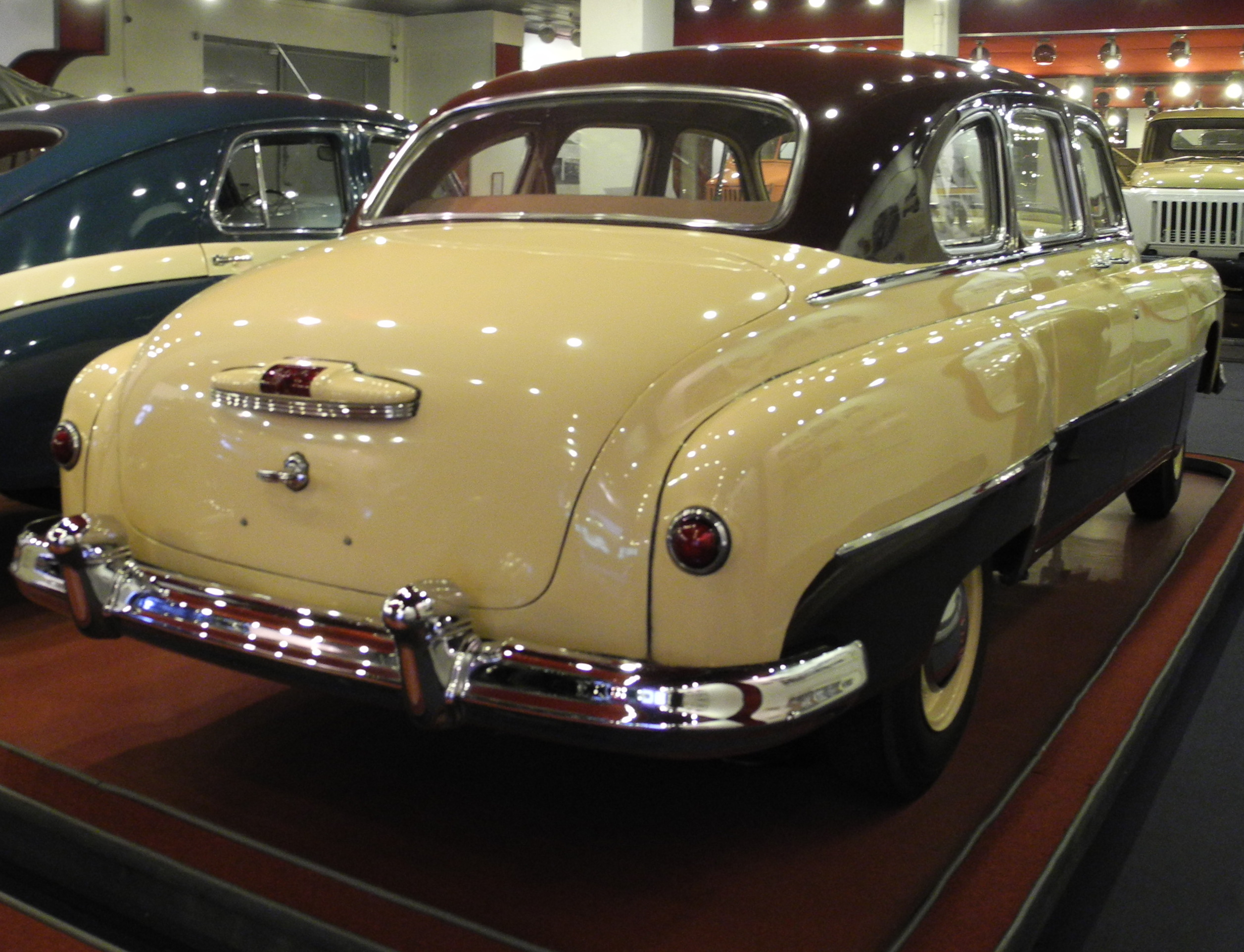 GAS SIM 12, russian car, location: GAS-museum, Nishni Novgorod